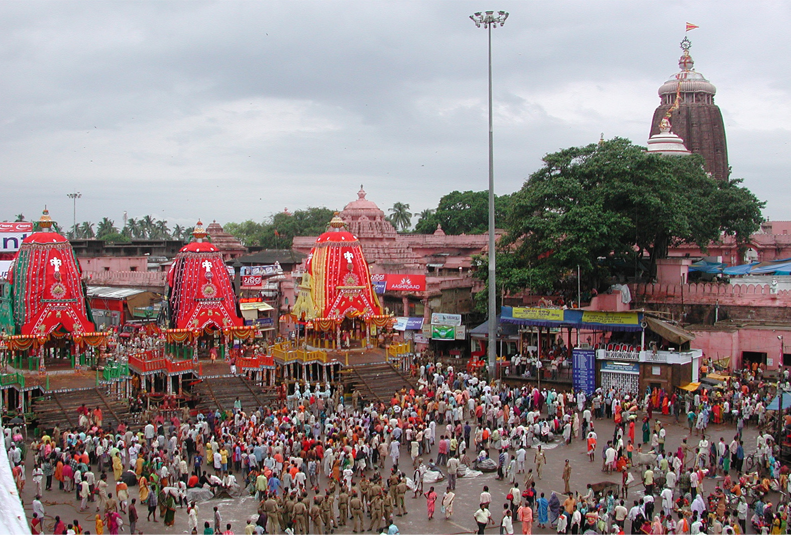 Rath Yatra festival in Puri, Orissa, India. View over the Shri Jagannath Temple. Three carts for the Gods Jagannath, Balabhadra, Subhadra and Sudarshana are being prepared to be drawn down main street.